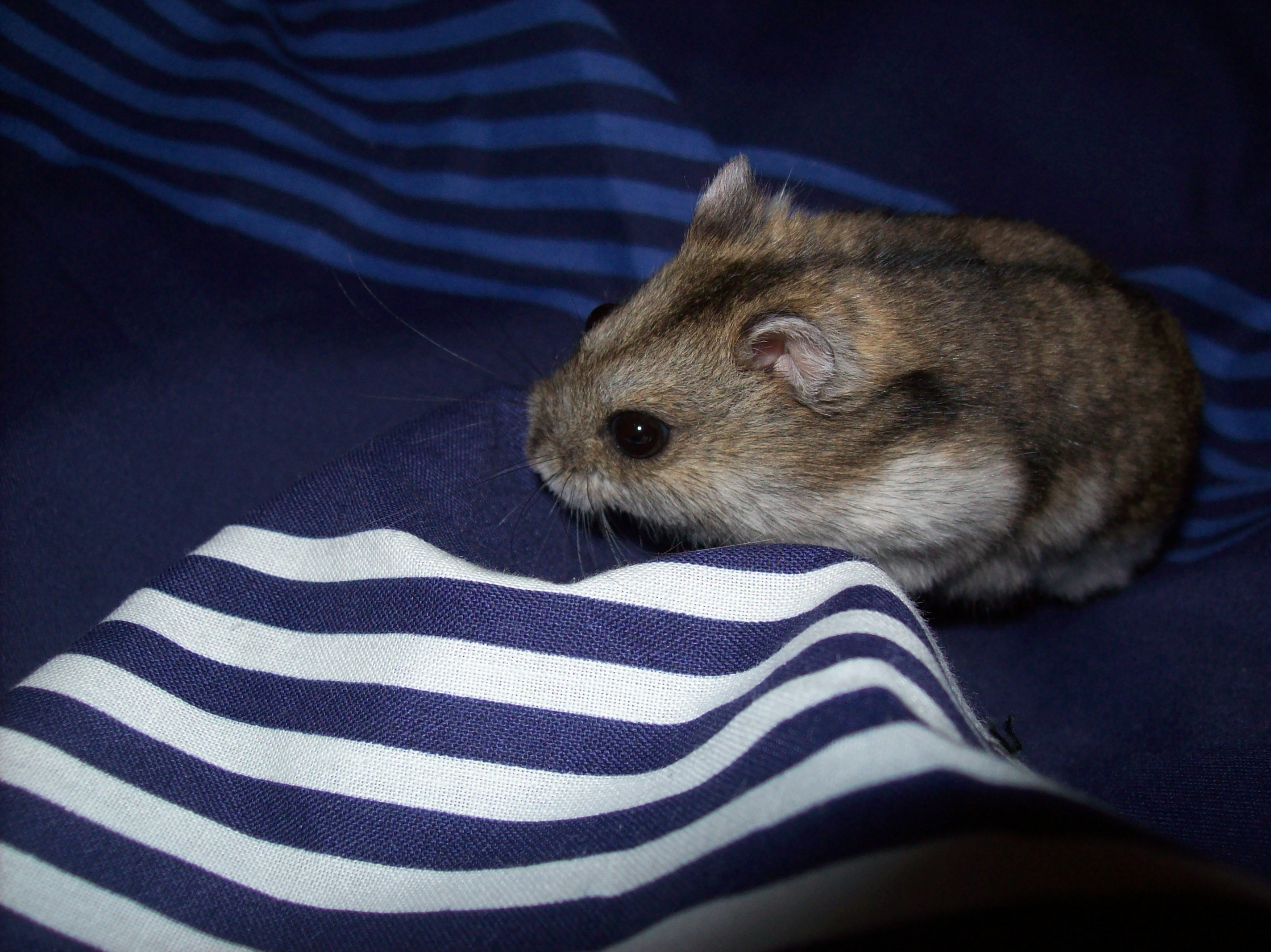 Male dwarfe hamster on bed.